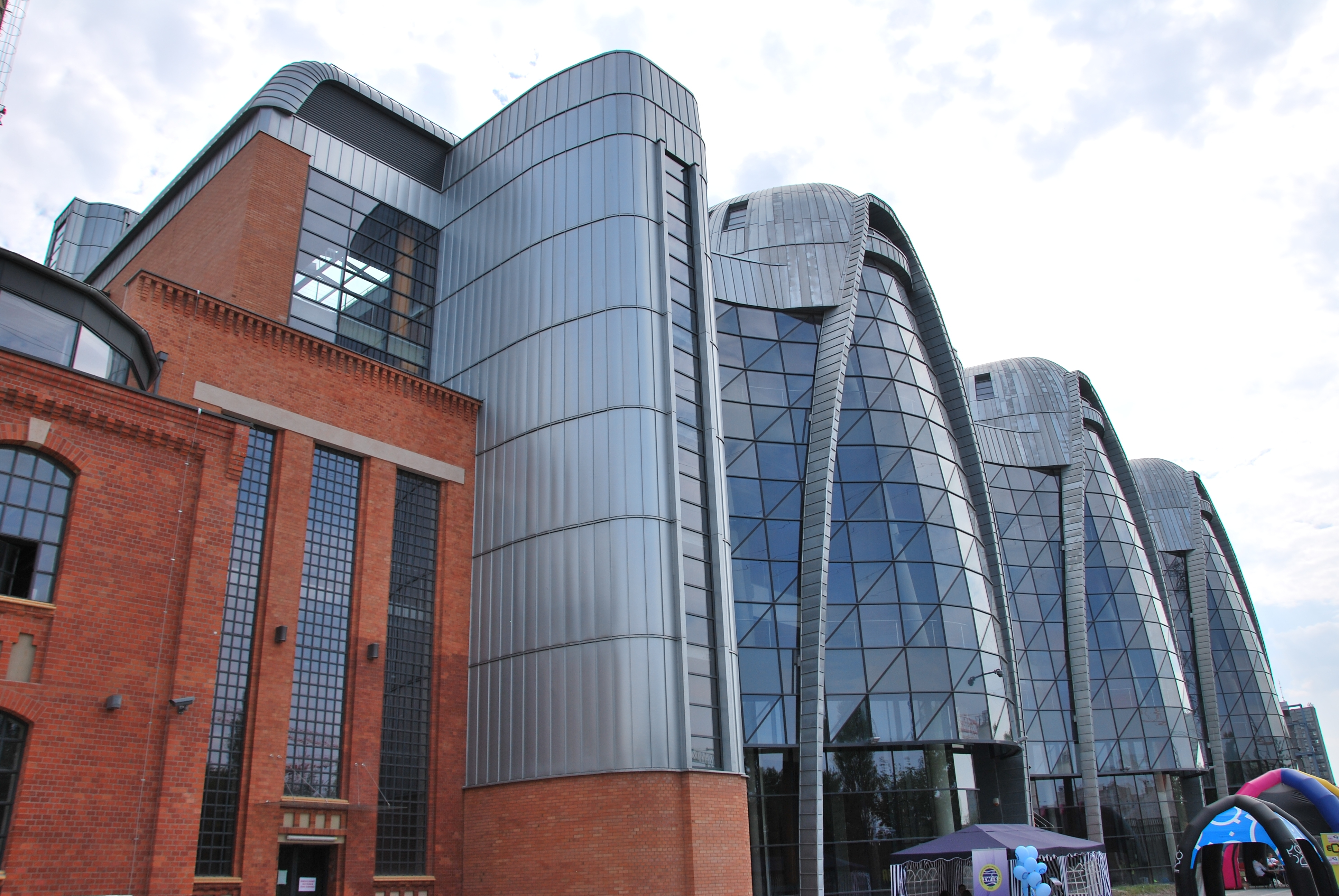 EC1, former power station, Łódź 2013